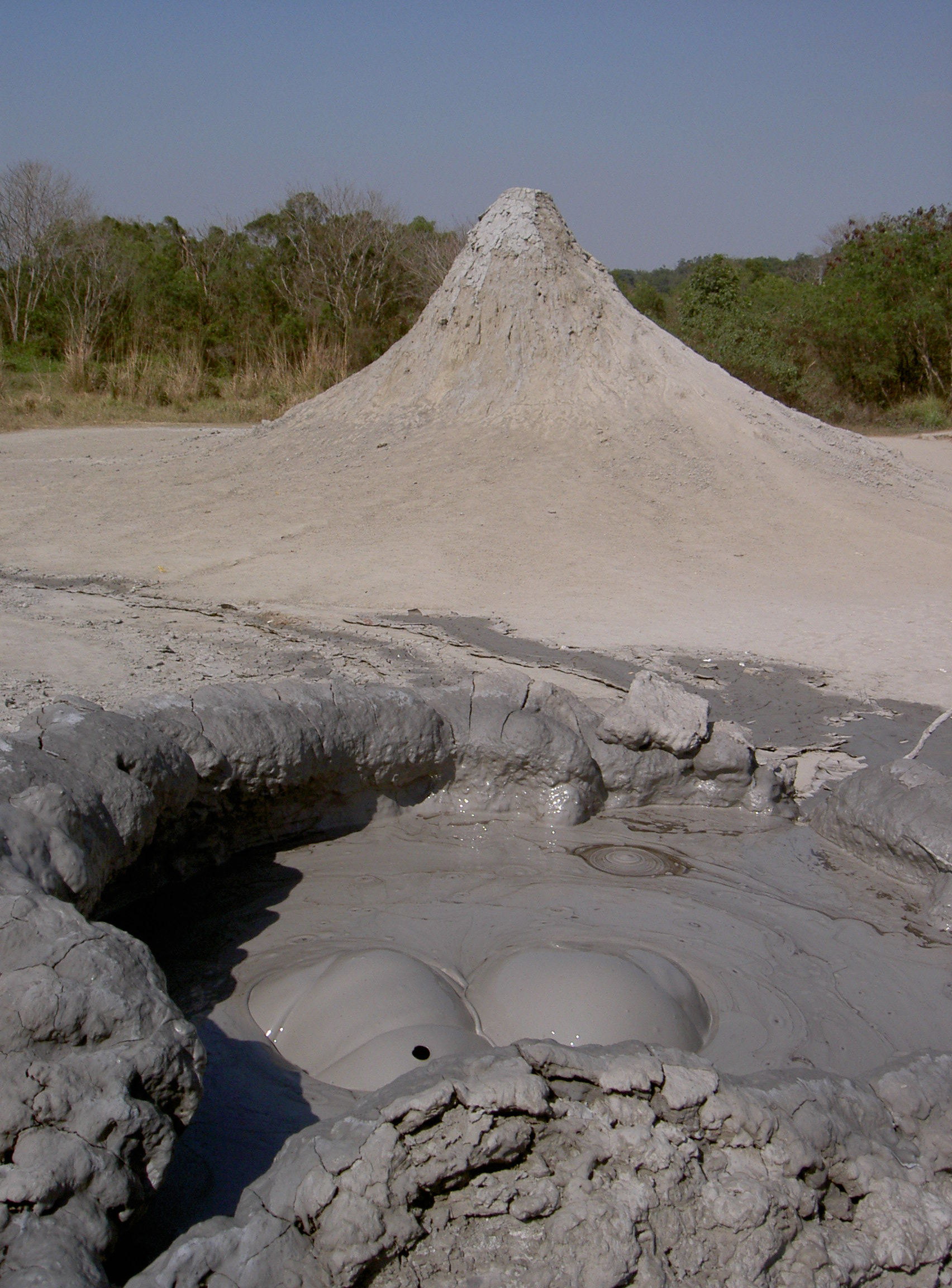 Wushanding mud volcano in Yanchao, Kaohsiung, Taiwan.